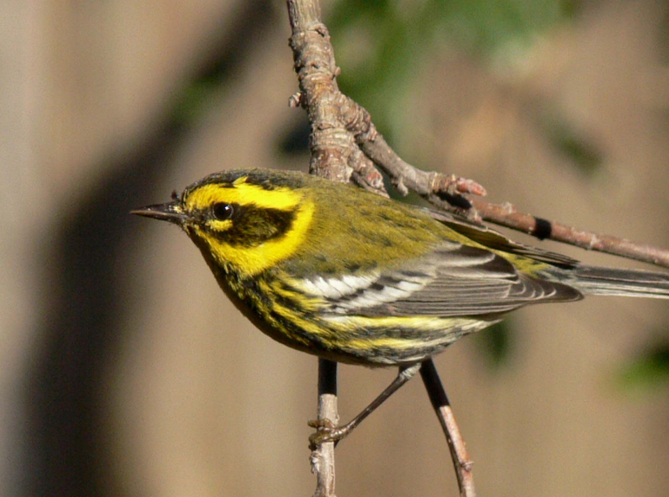 Townsend's Warbler (Dendroica townsendi).